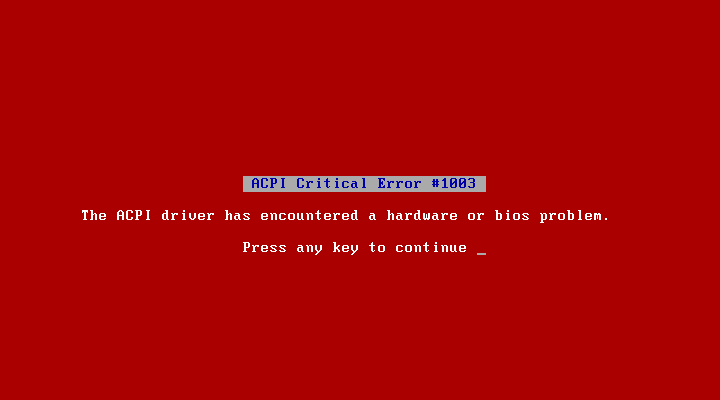 This is the red screen of death on Microsoft Memphis Build 1400.